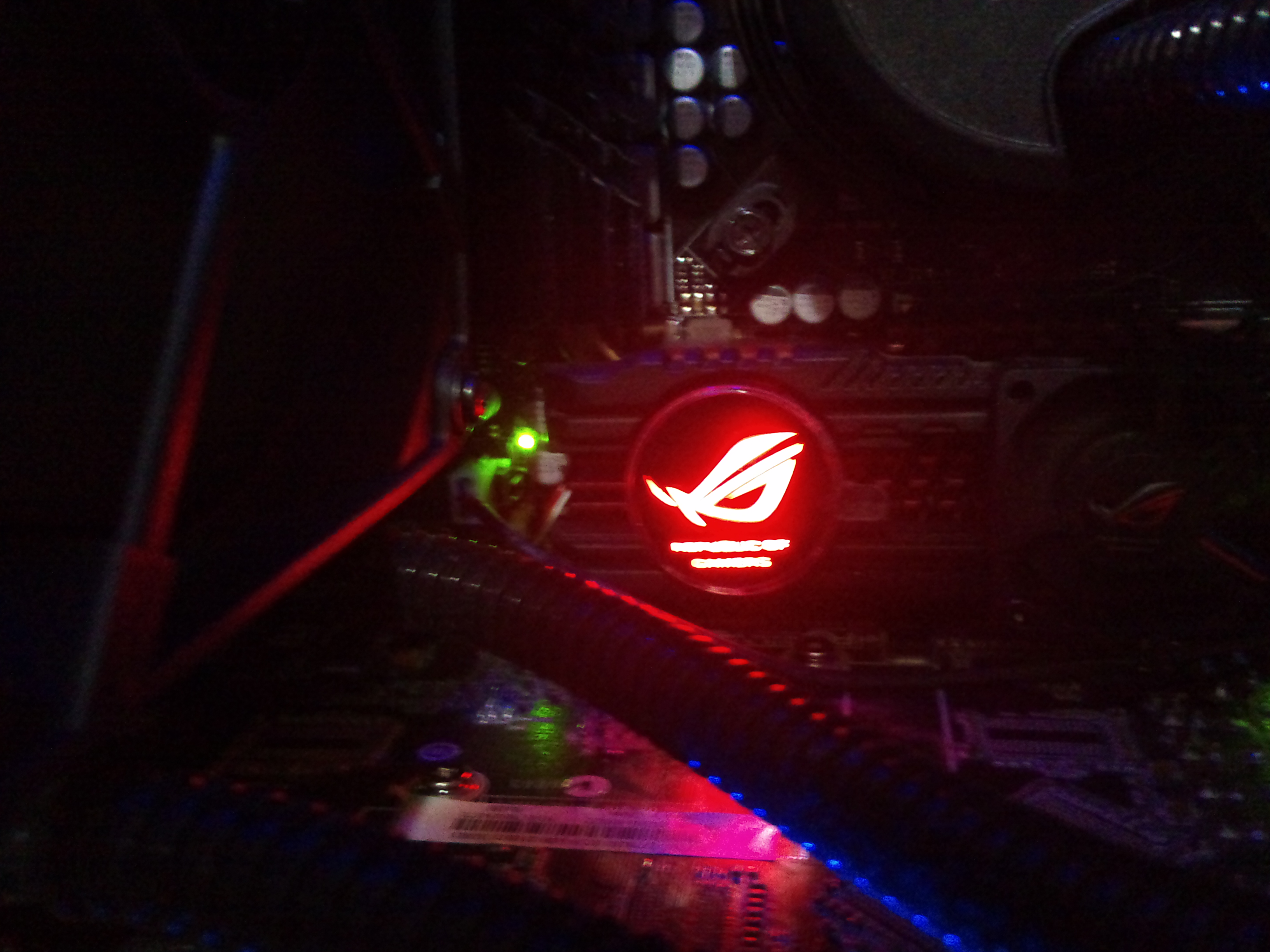 Republic of Gamers logo on ASUS graphics card.